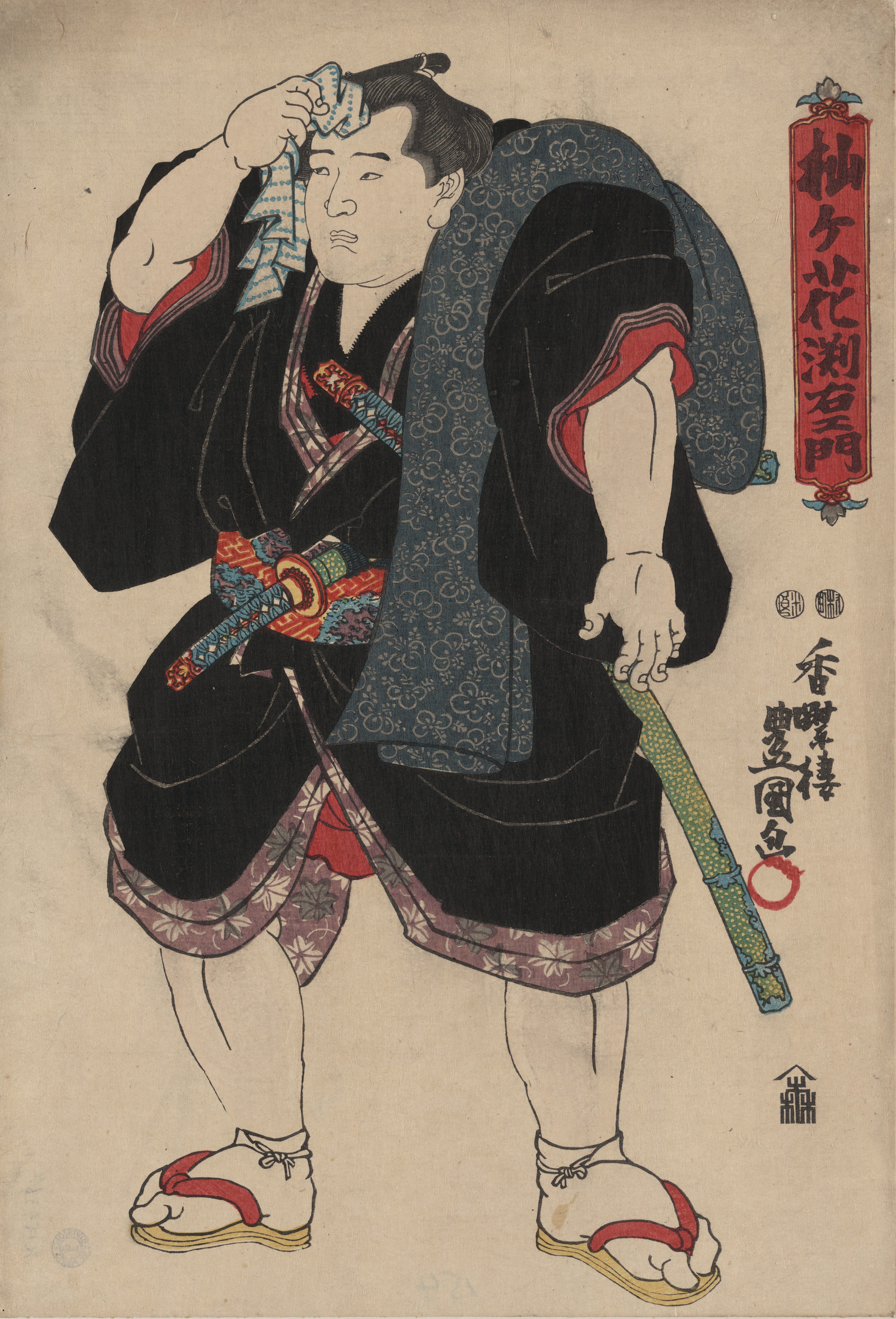 Woodcut print shows sumo wrestler Somagahana Fuchiemon, full-length portrait, standing, facing slightly left, wearing robes with two swords.